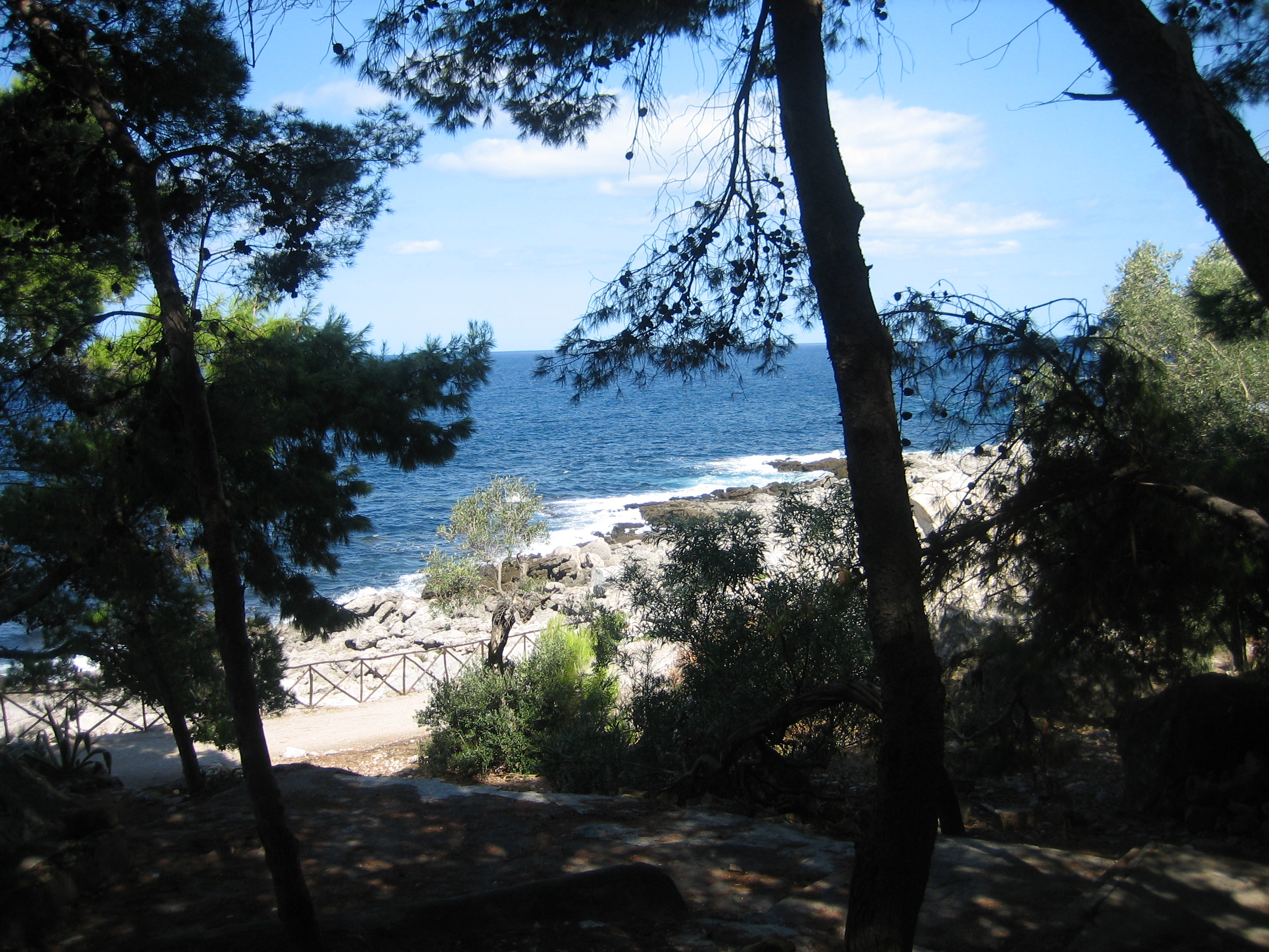 Pine trees in conservation area of Capo Gallo, Sicily.